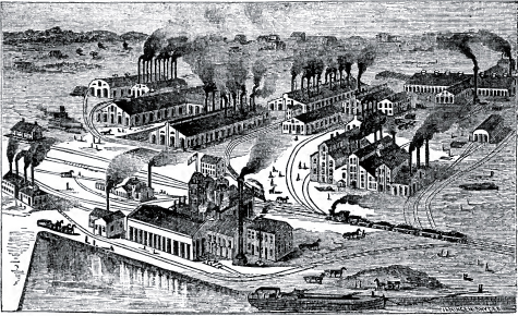 Illustration of Joliet Iron and Steel Works, Joliet, Illinois, USA. From advertisement, p. 12.